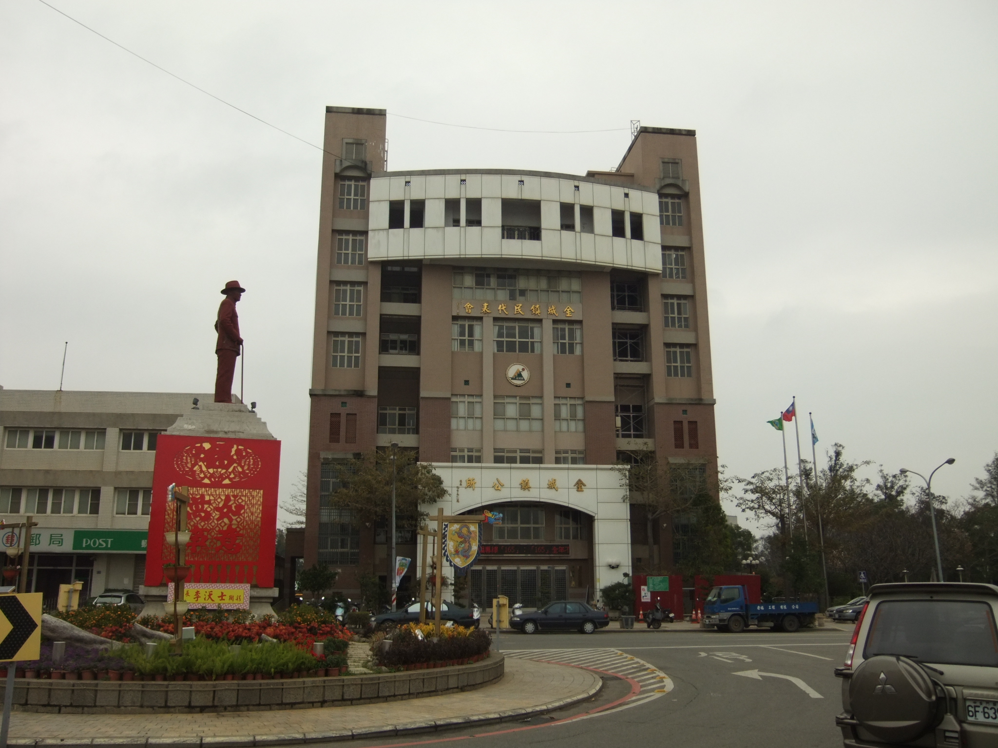 A roundabout with a monument to Chiang Kai-shek in Minzhu Lu, Jincheng, Kinmen Island (near the town's central bus station and township hall)